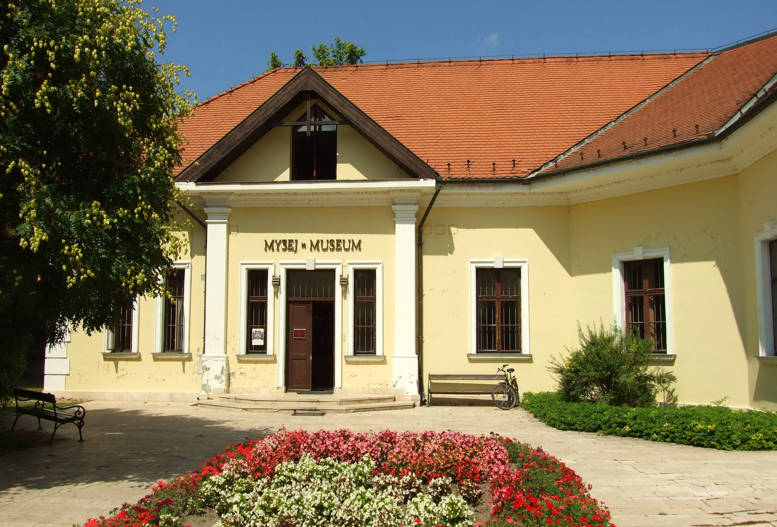 Serbian Museum. - City of Szentendre, Pest County, Hungary